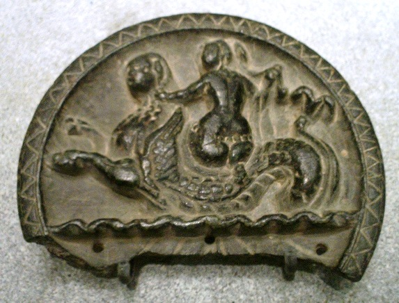 Nereid and Ketos, Sirkap, Gandhara. Musee Guimet. Personal photograph 2006. See also Hellenistic Nereid and Ketos.